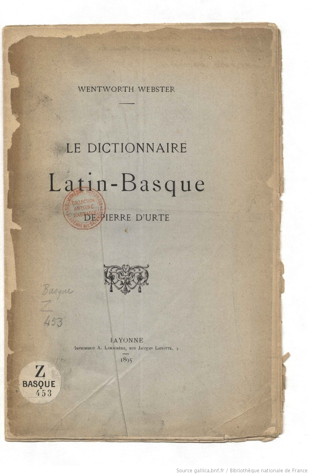 digitization of the cover page of the edition of the Basque dictionary by Pierre d'urte written around 1700